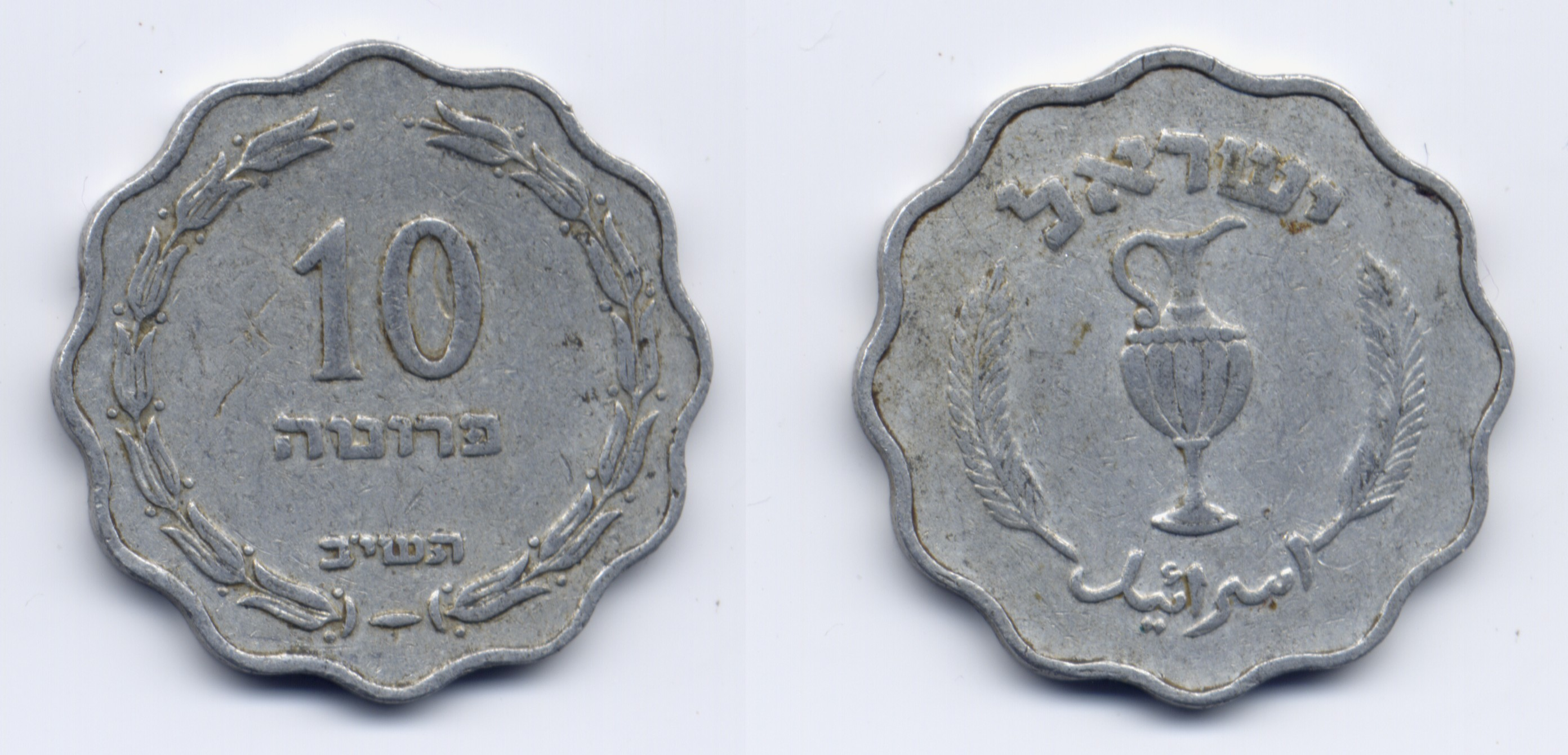 Ten Israeli Pruta, aluminium version, year התשי"ב.